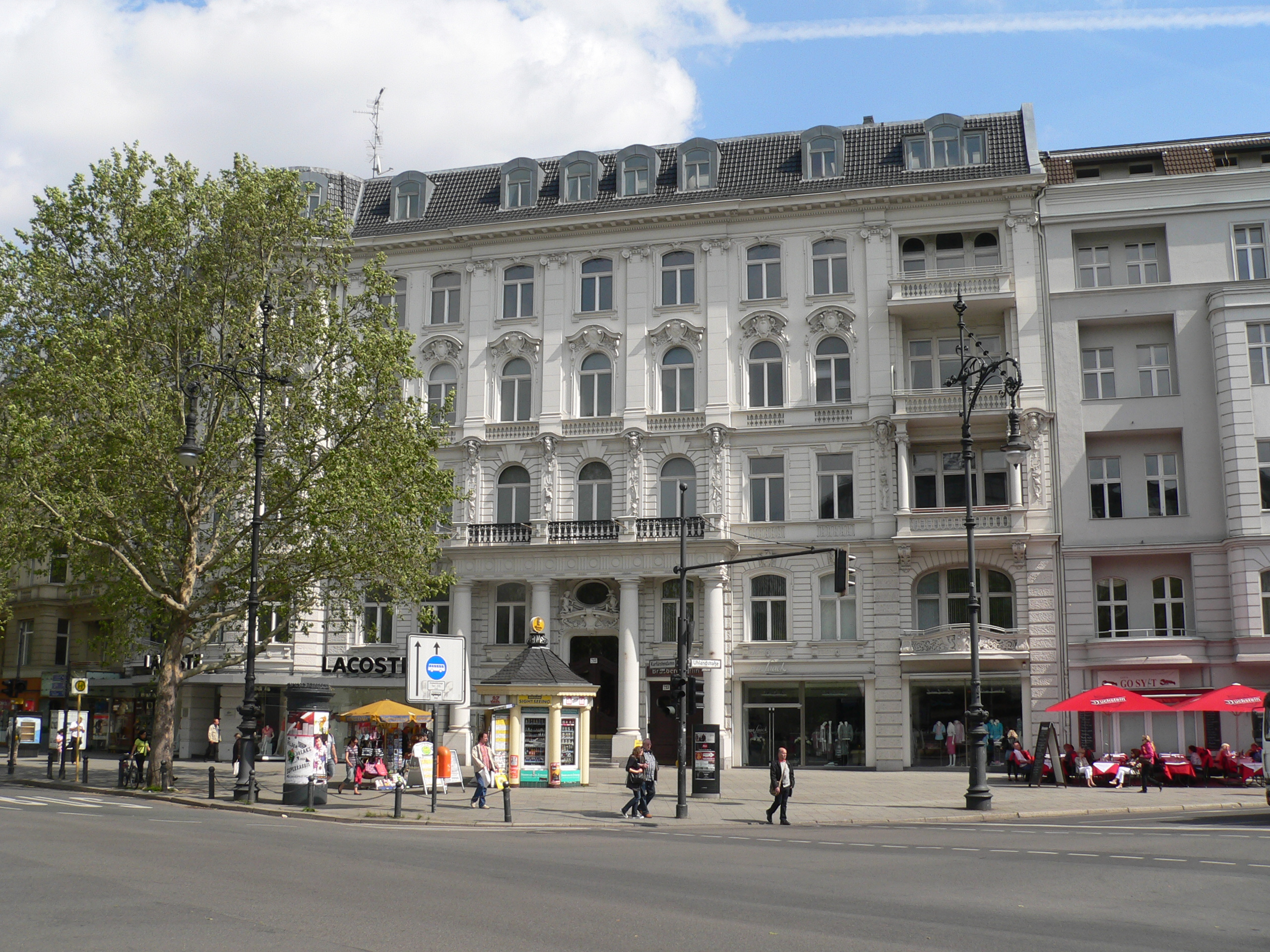 Berlin-Charlottenburg Kurfürstendamm and Uhlandstraße; Kurfürstendamm 213